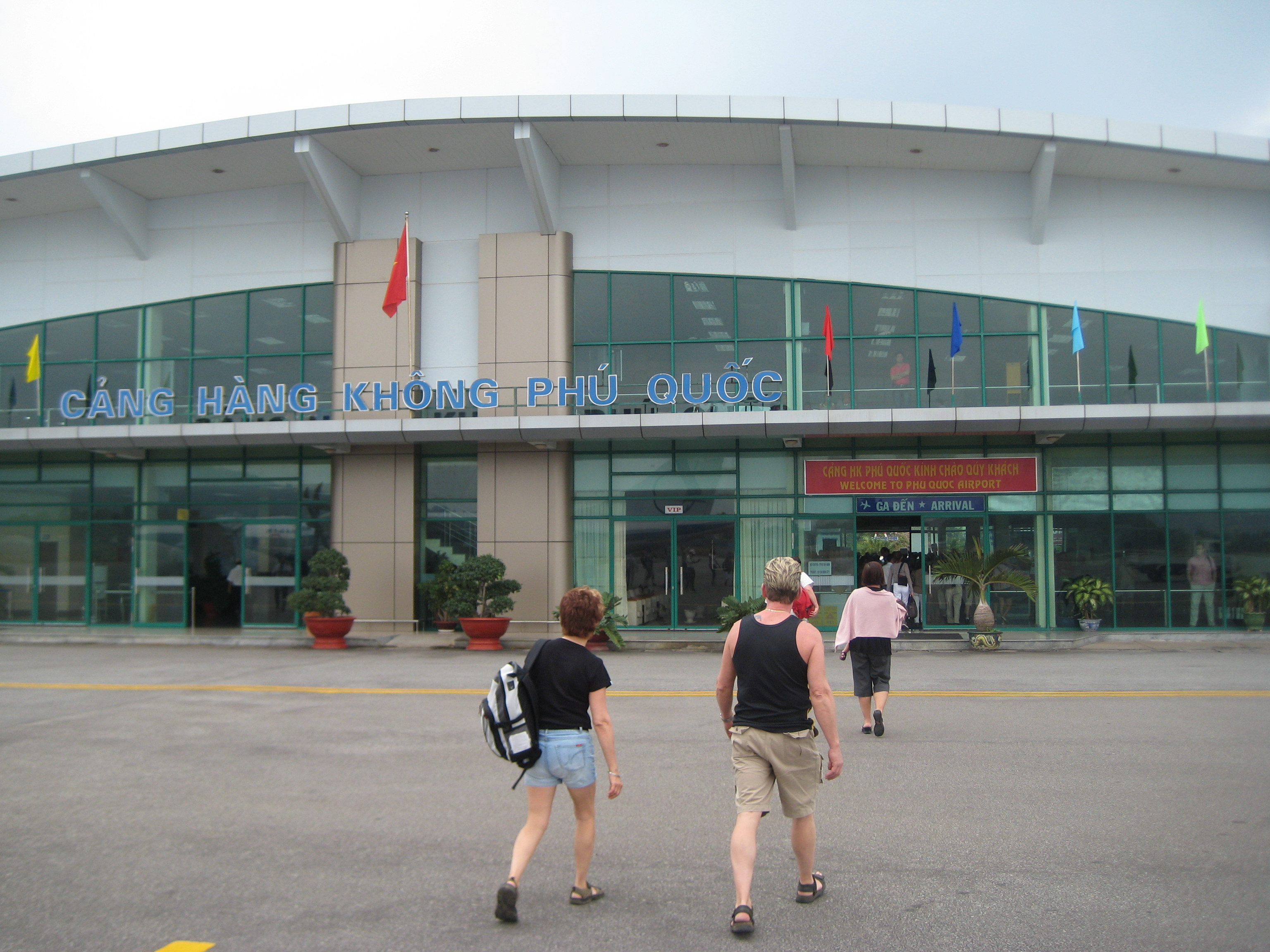 Vietnam Phu Quoc Airport